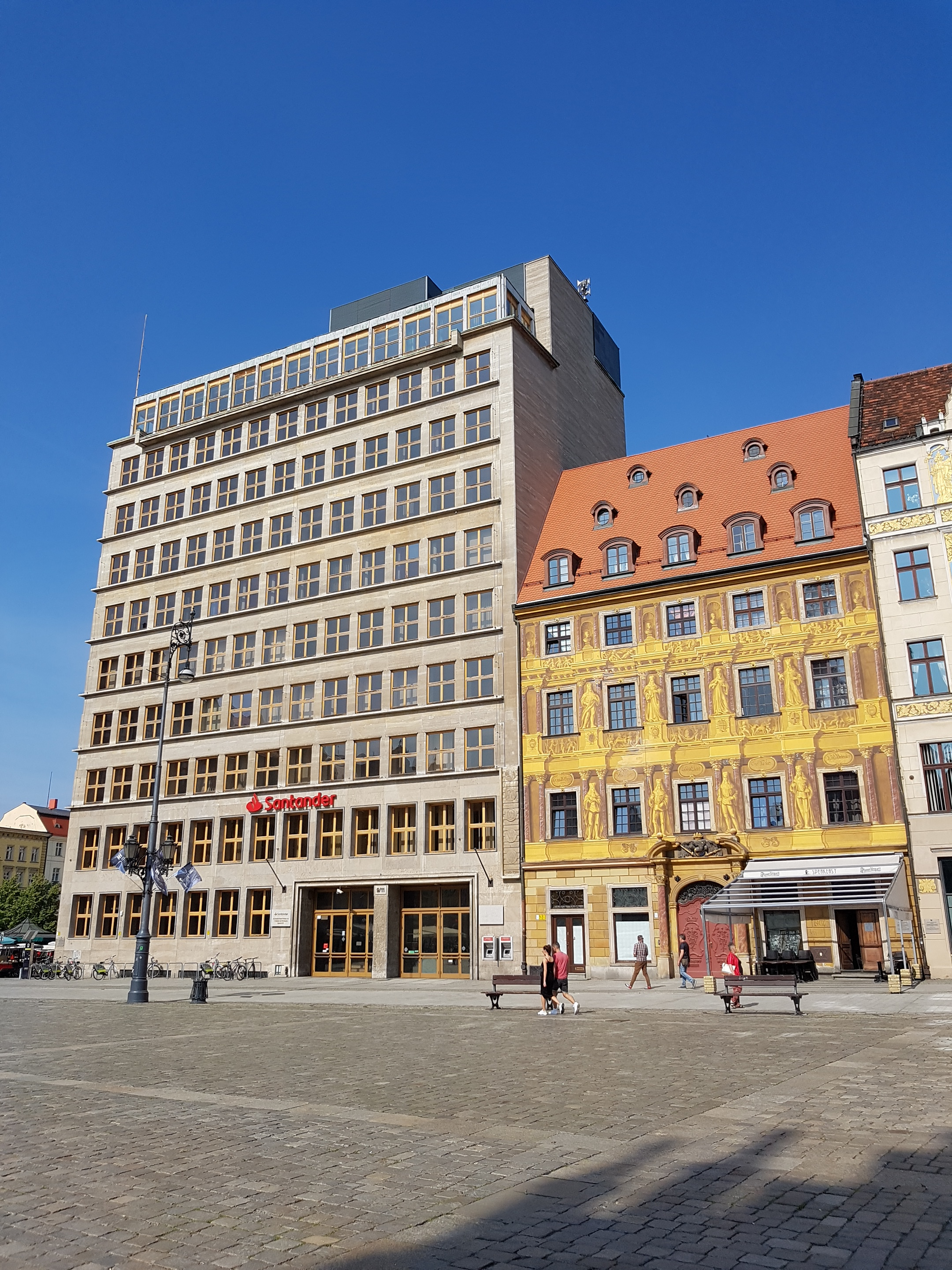 Photograph series in Wrocław.